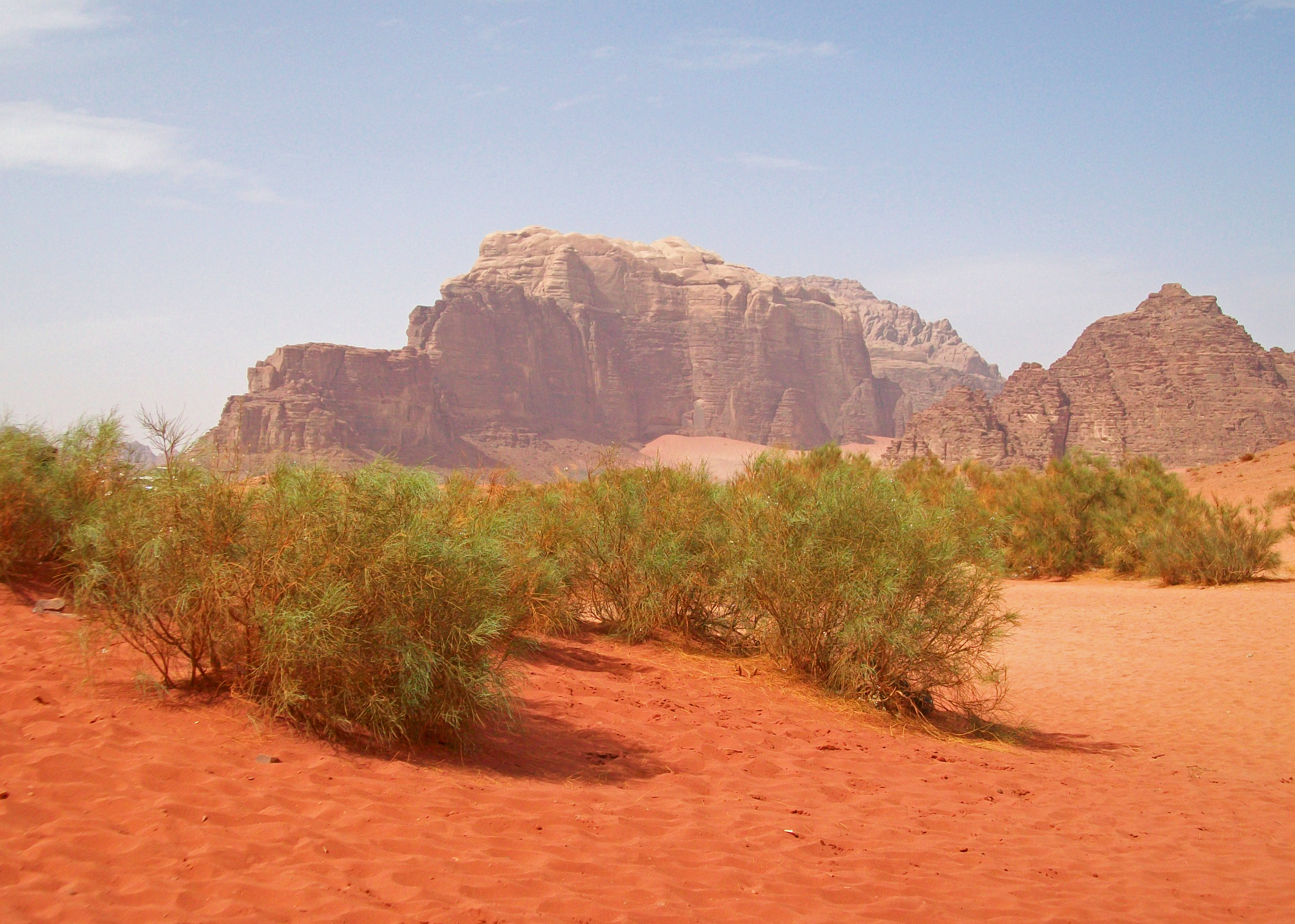 View of a mountain over desert shrubbery from a creek bed, Wadi Rum